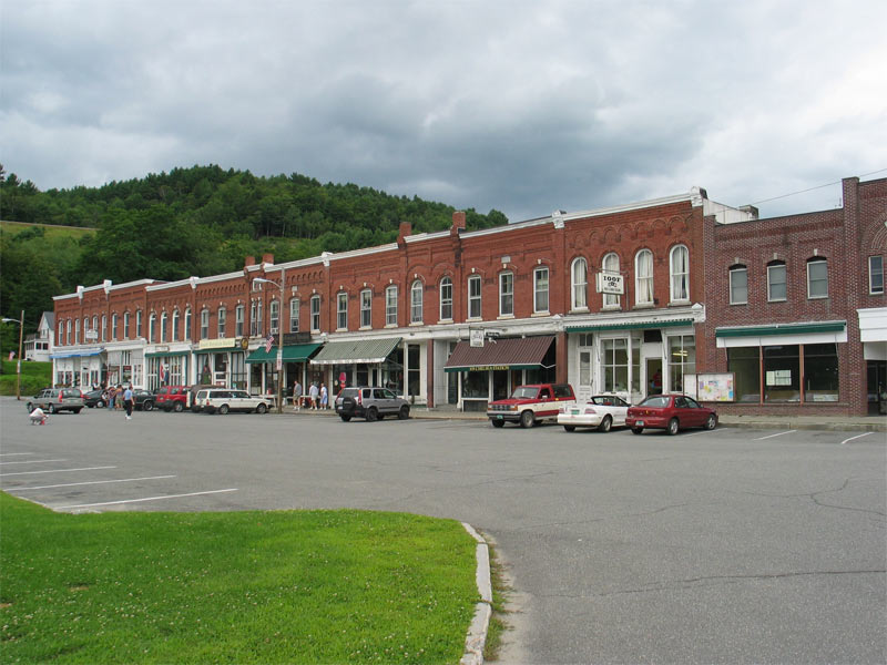 Description: Photograph of South Royalton, Vermont Source: Photograph taken by Jared C. Benedict on 08 August 2004. Copyright: © Jared C. Benedict. See Also: Alternative photo of South Royalton